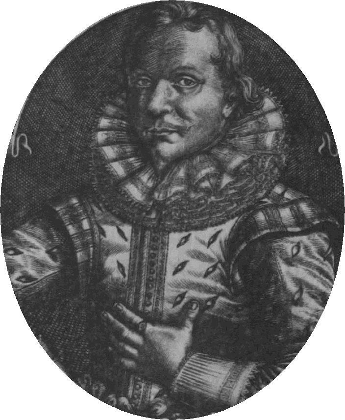 Matthias Glandorp (from his book Matthiae Ludovici Glandorp Tractatus de polypo narium affectu ,,,)